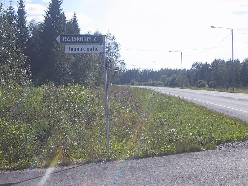 Rajakorpi in Kempele, Finland